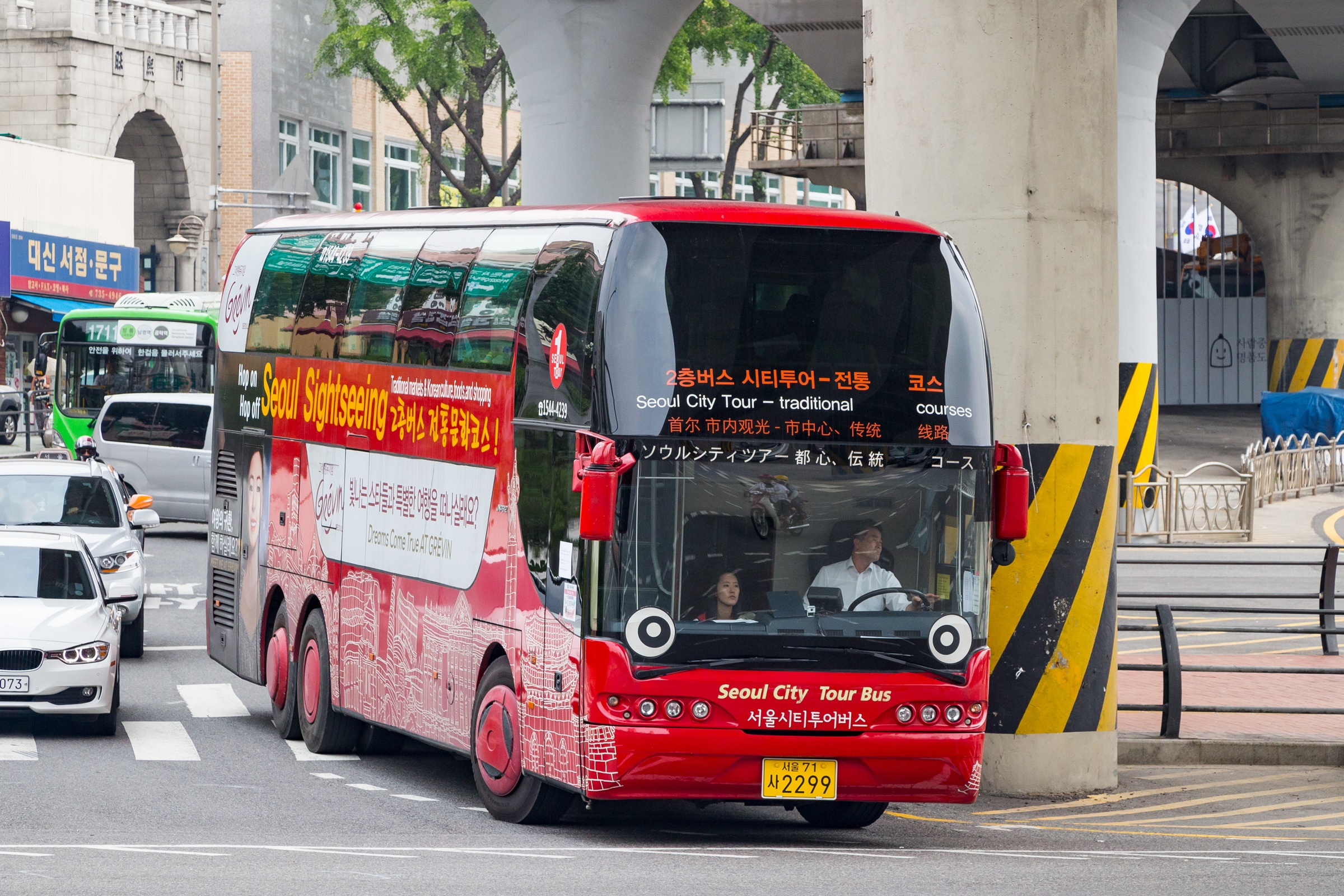 Youngman Neoplan JNP6127S in Seoul, Korea